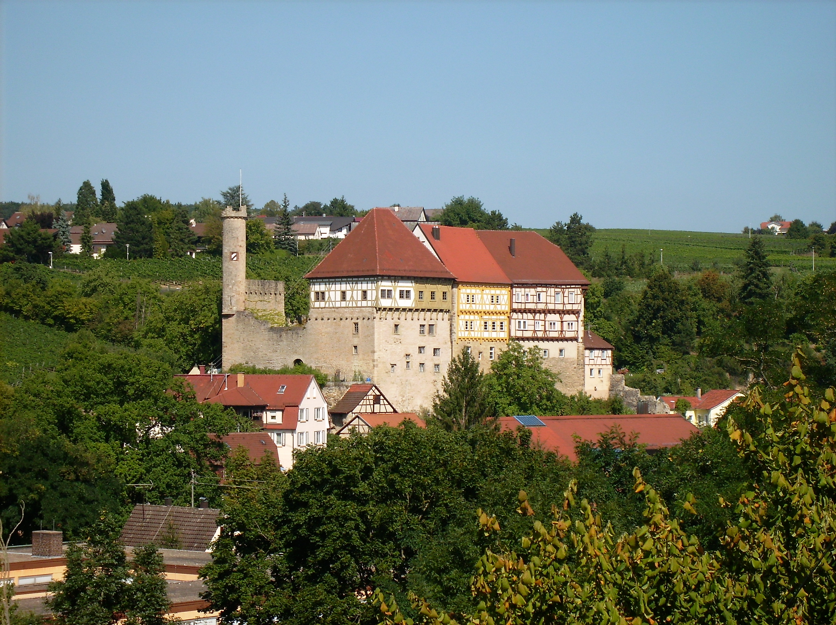 Obere Burg Talheim seen from west